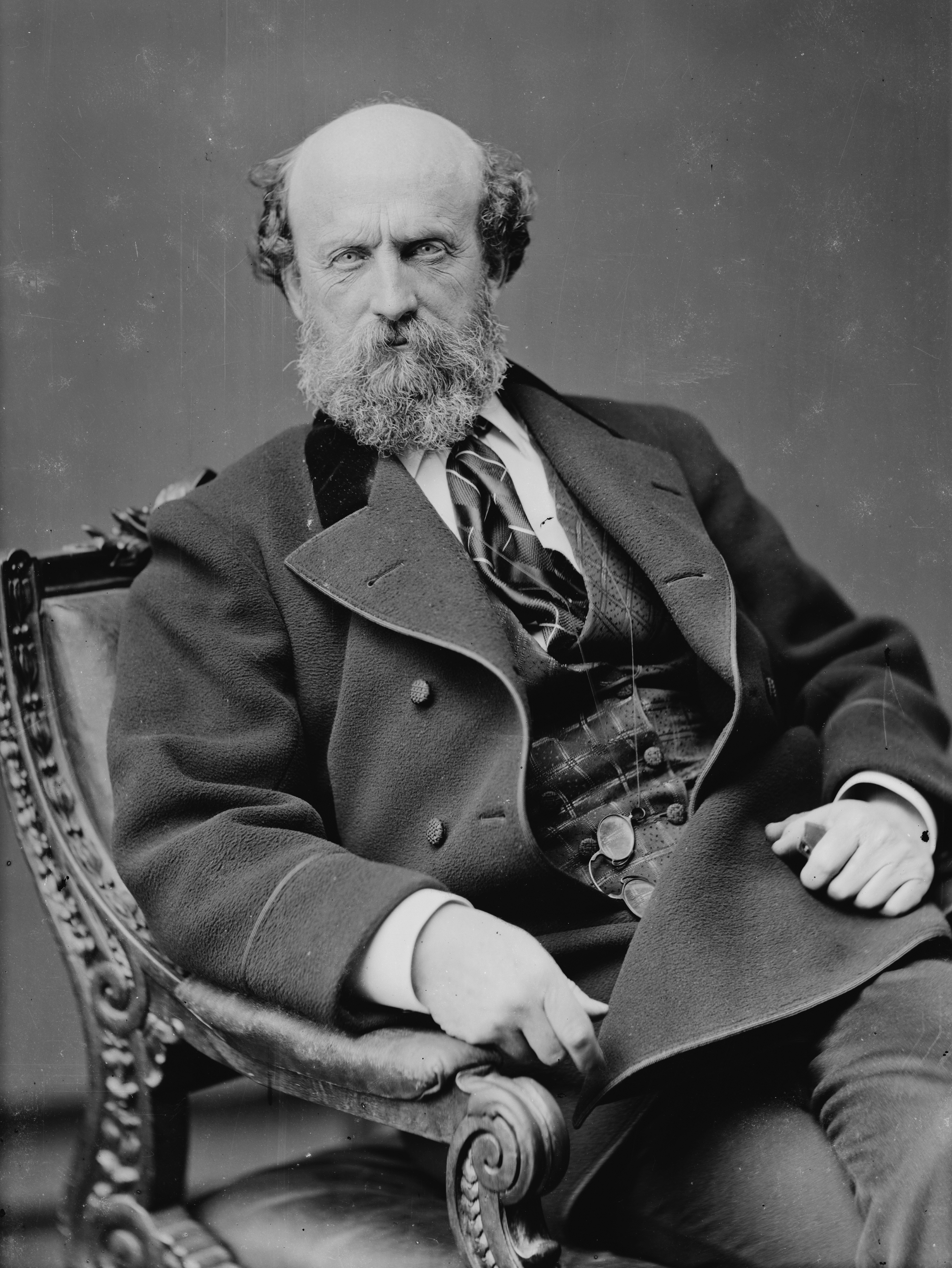 A portrait of the Honorable Joseph Rodman West, U.S. senator from Louisiana from 1871 to 1877. The following was scratched into the emulsion: "Sen. J R West, La., 1509 [crossed out], 493 [crossed out]".